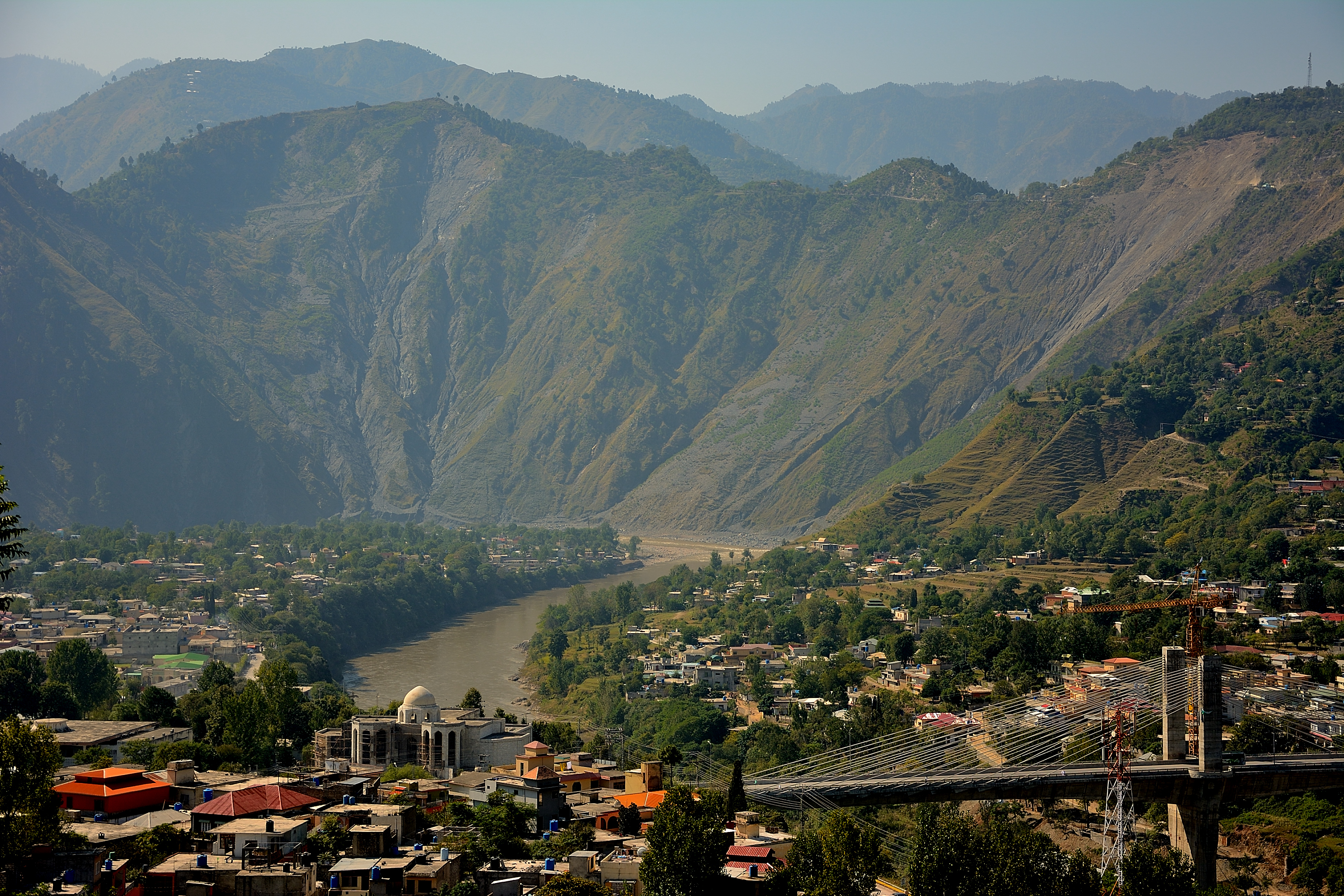 shot taken from Pearl Continental Hotel during our company away day session